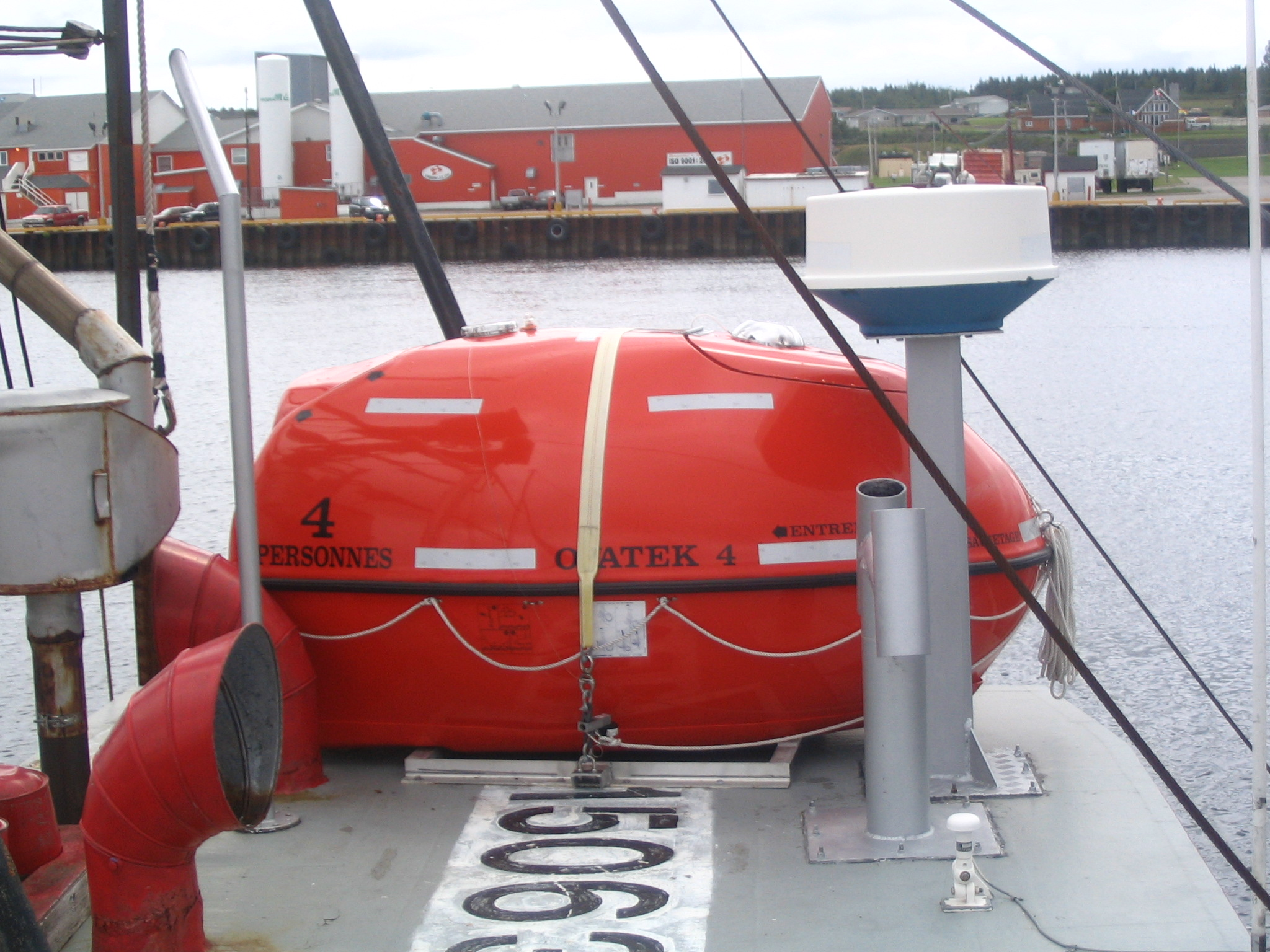 An Ovatek escape pod, here on a fishing boat in the port of Caraquet, New Brunswick, Canada.